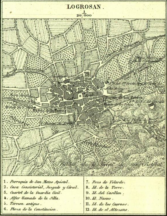 Map of Logrosán by Francisco Coello